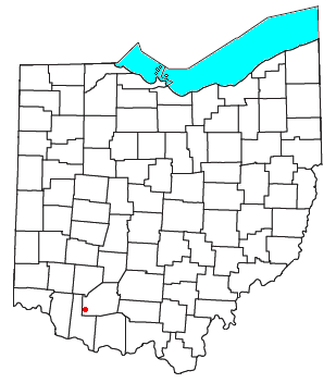 Locator map of the unincorporated community of Buford in Highland County, Ohio, United States.